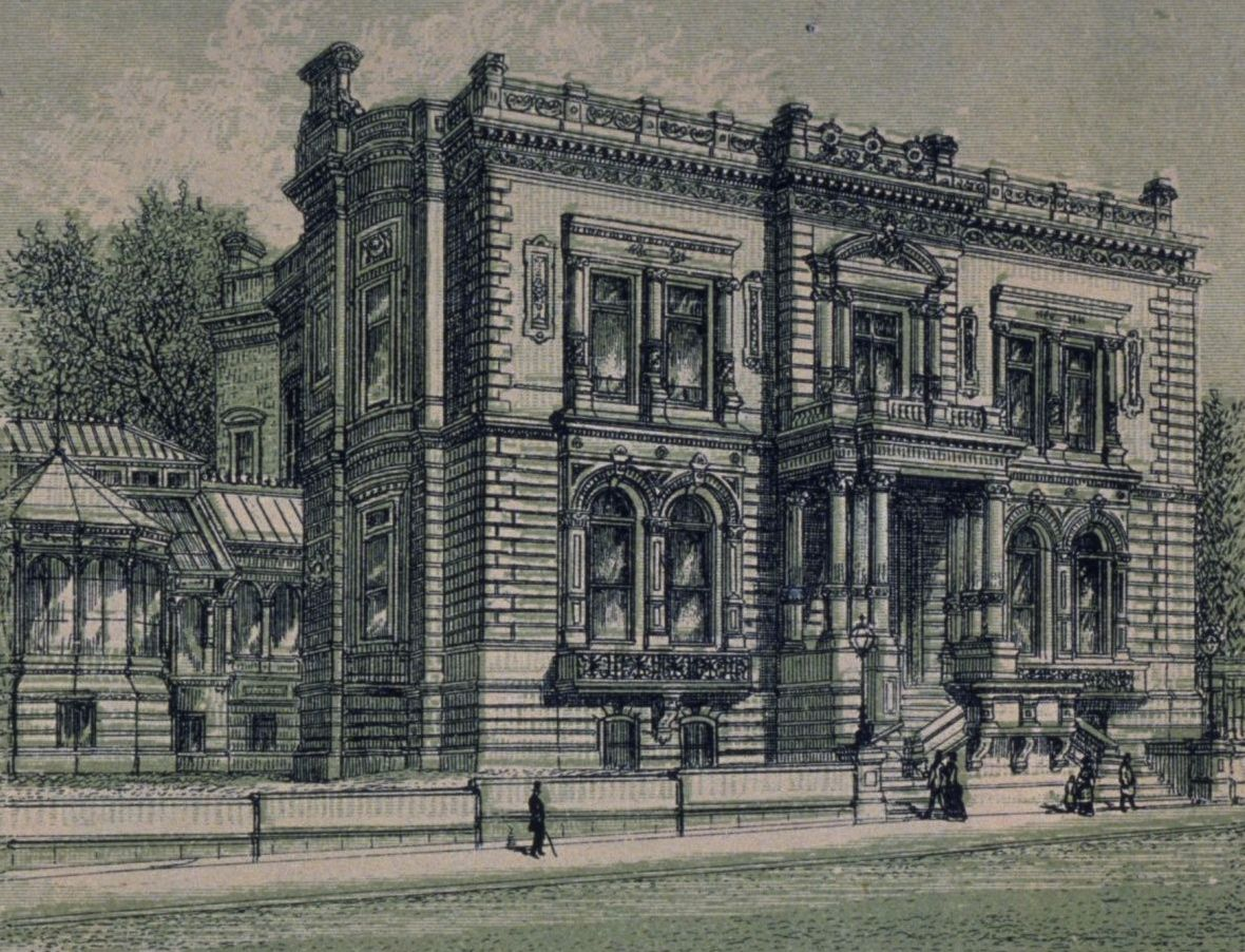 George Stephen House, also known as the Mount Stephen Club Building, 1430–1440 Drummond Street, Montreal, Quebec, Canada.